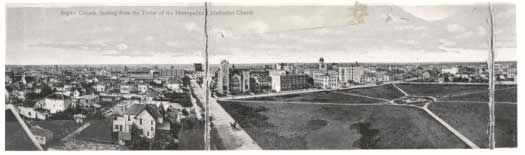 Regina from the tower of the Metropolitan Methodist Church ca. 1913-1914